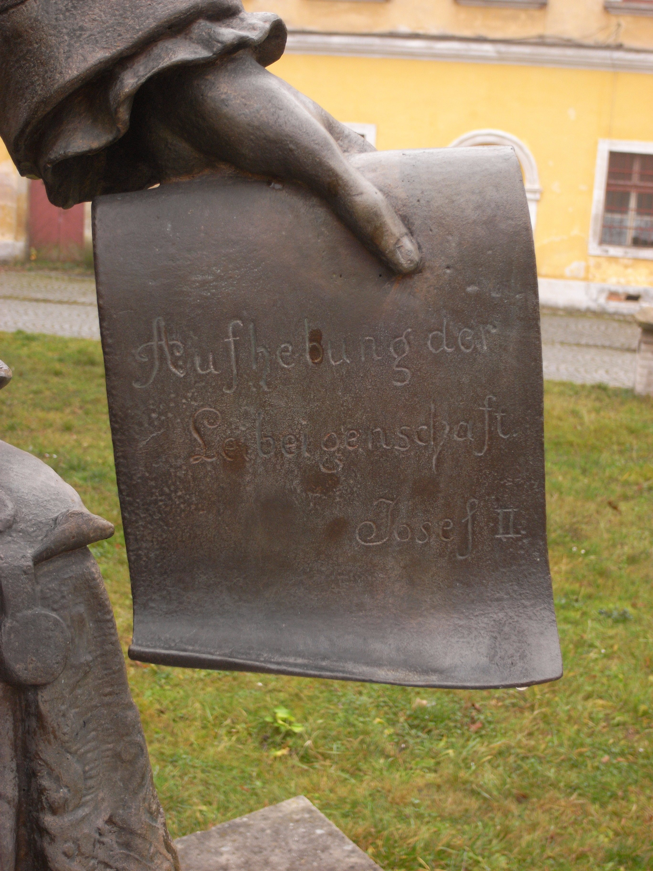 decret / emperor Josef II. (1765-1790) (statue of fortress Josefov, Jaroměř, Czech Republic) (abolishment of serfdom)